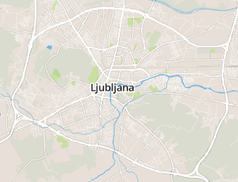 Map of Ljubljana, capital city of Slovenia, with the motorway ring from OpenStreetMap MapBox